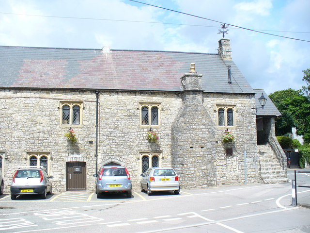 Historic Llantwit Major Ancient Christian settlement with roots dating back to 500AD. This old stone hll house has an outer double staircase.